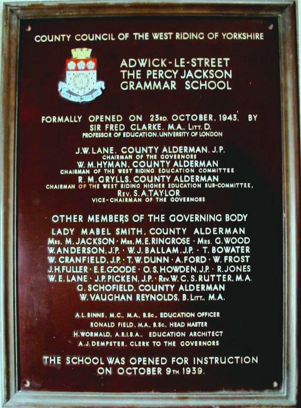 The Plaque of the Formal Opening of the School